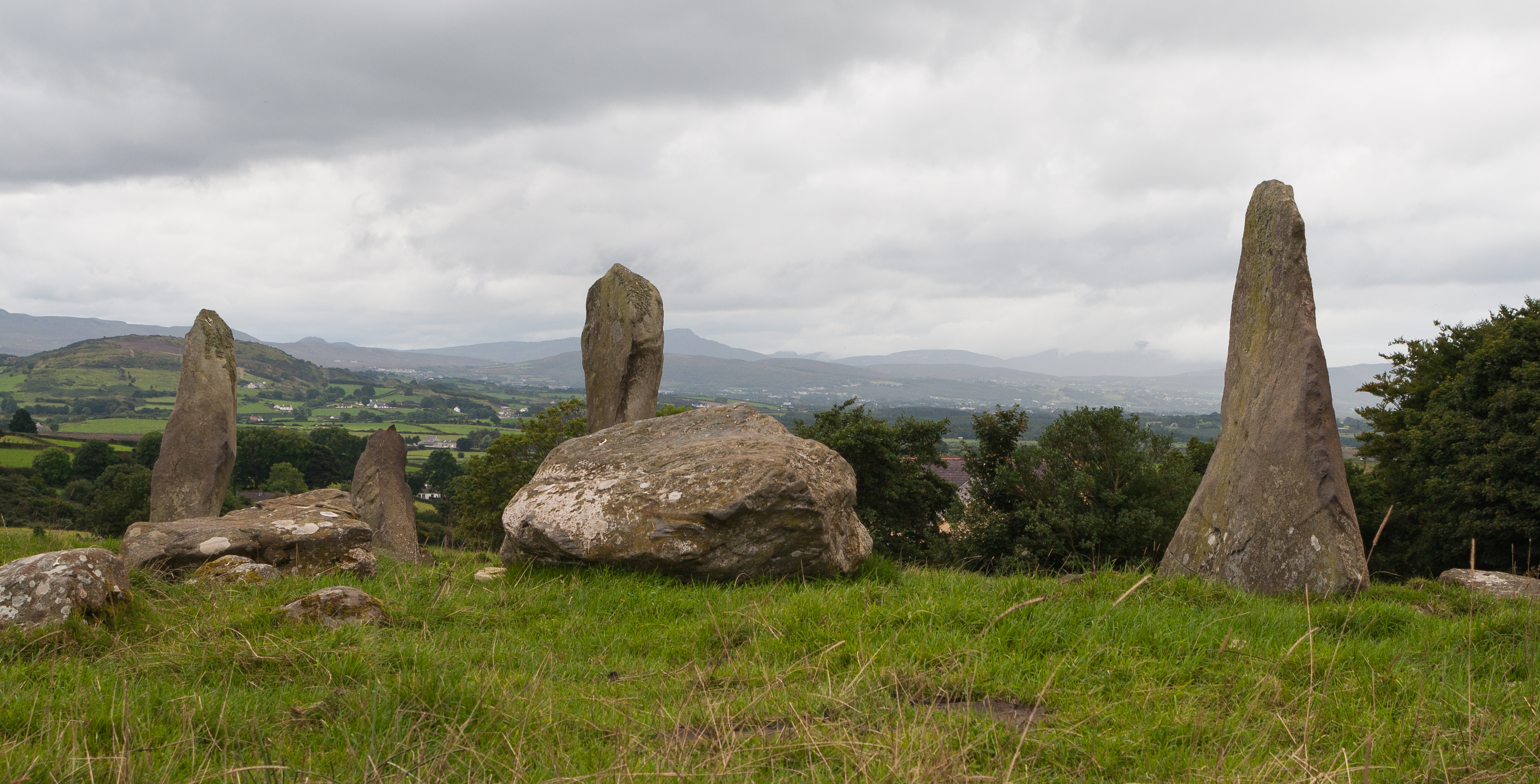 The four north-most still standing stones of Bocan stone circle, looking west.